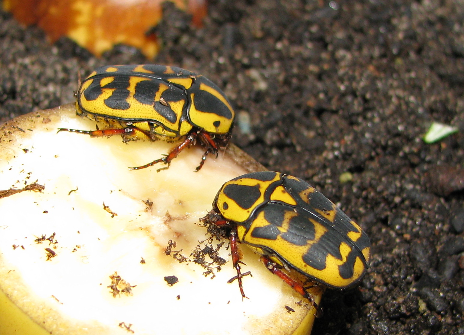 Pachnoda cordata from Tansania